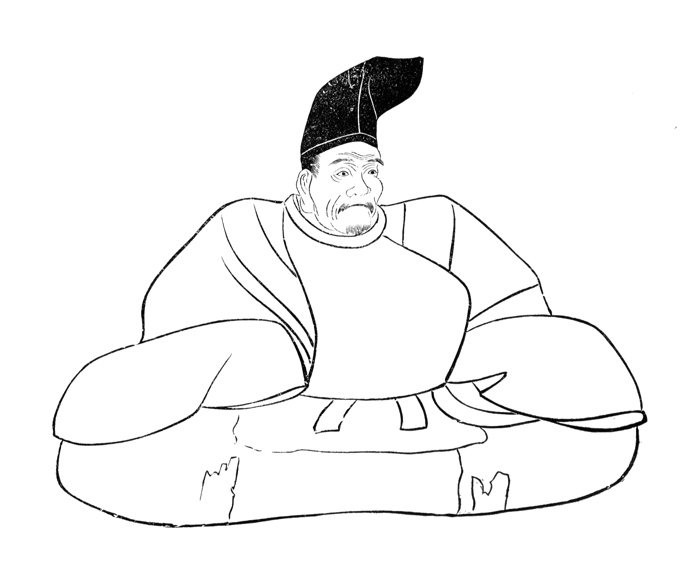 Statue of Kajiwara Kagetoki